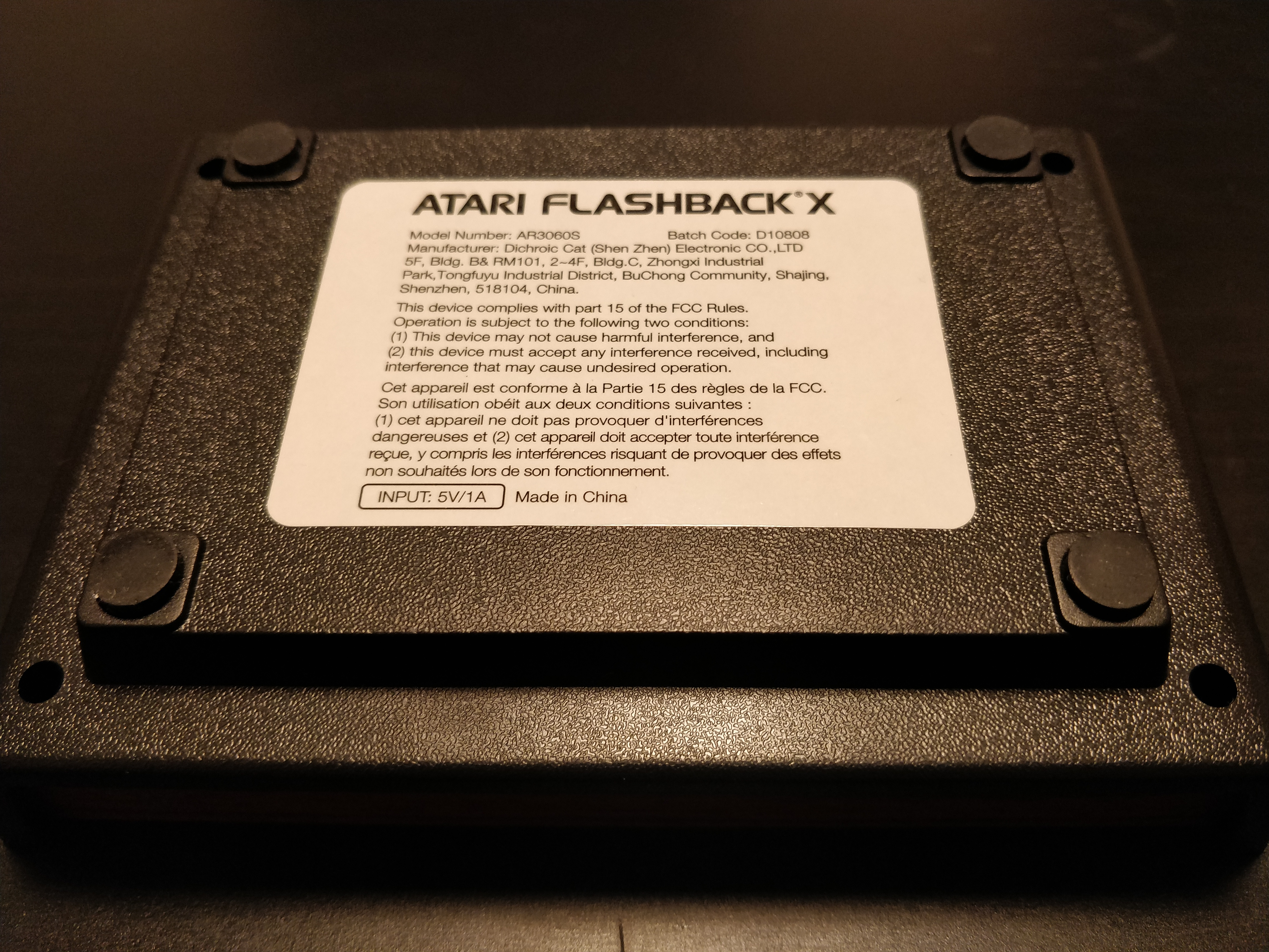 Atari Flashback X Deluxe video game console